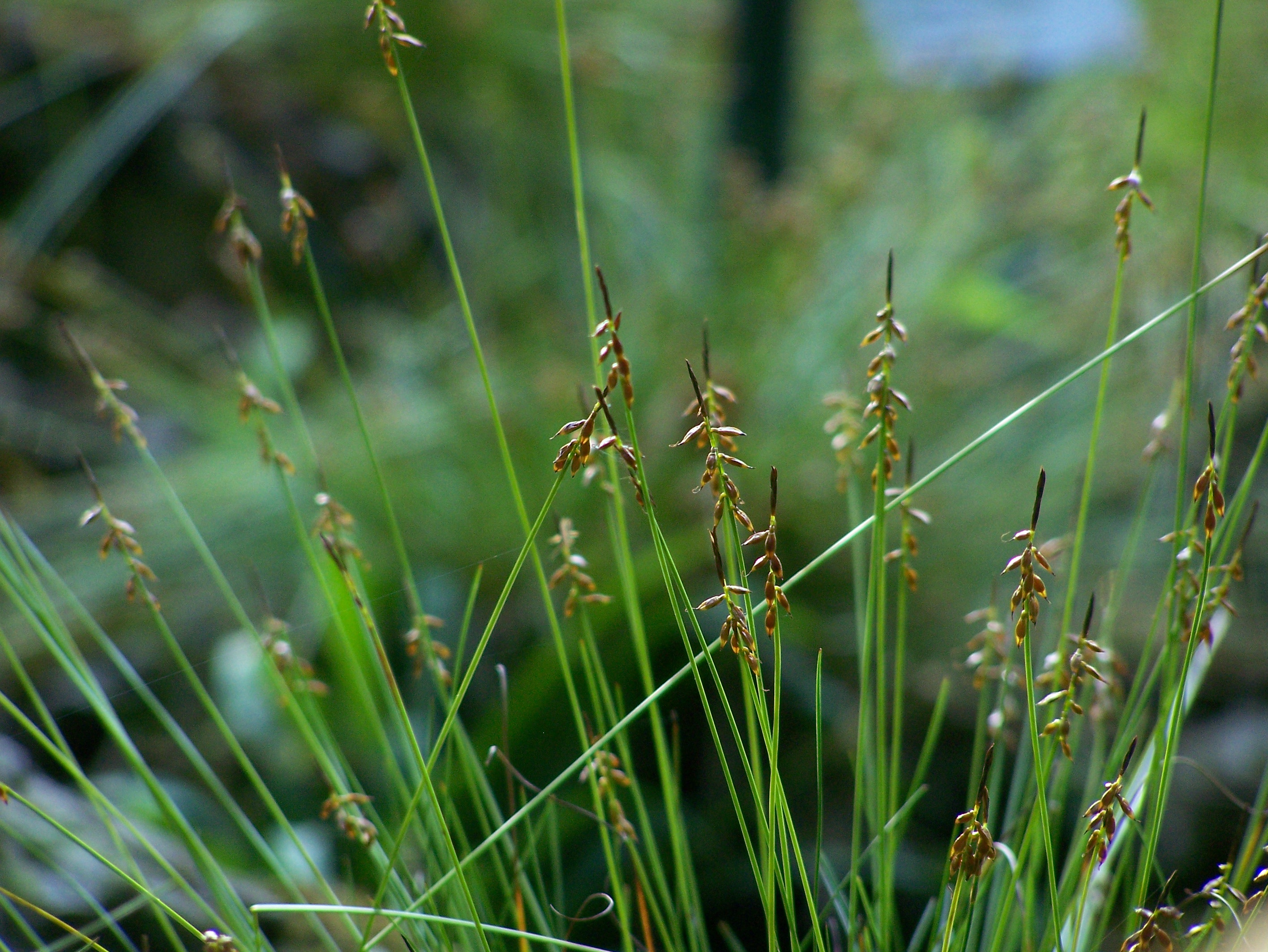 Species: Carex pulicaris